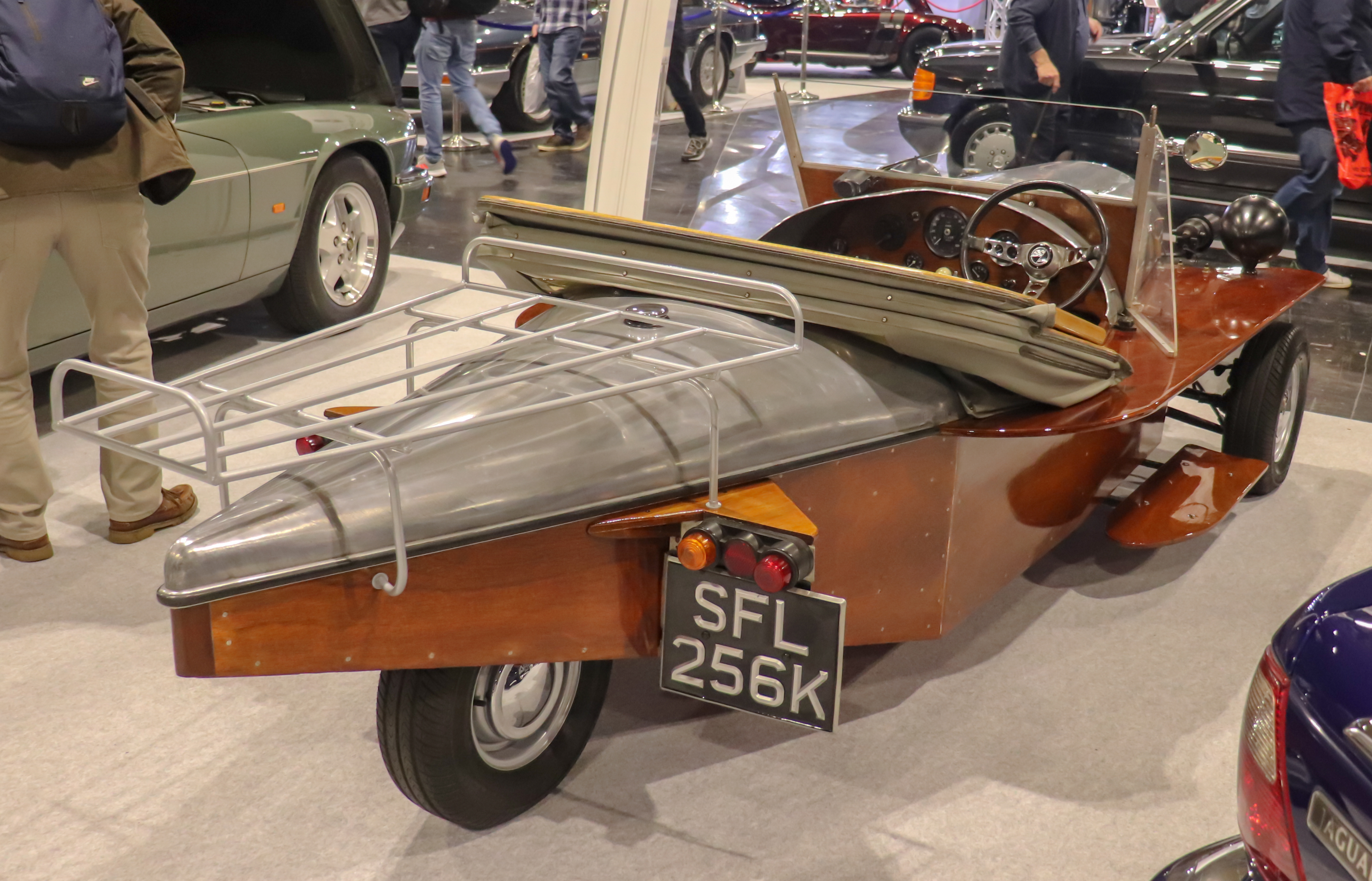 1971 A.F Spider 1.3 Rear Taken at the NEC Classic Motor Show 2018